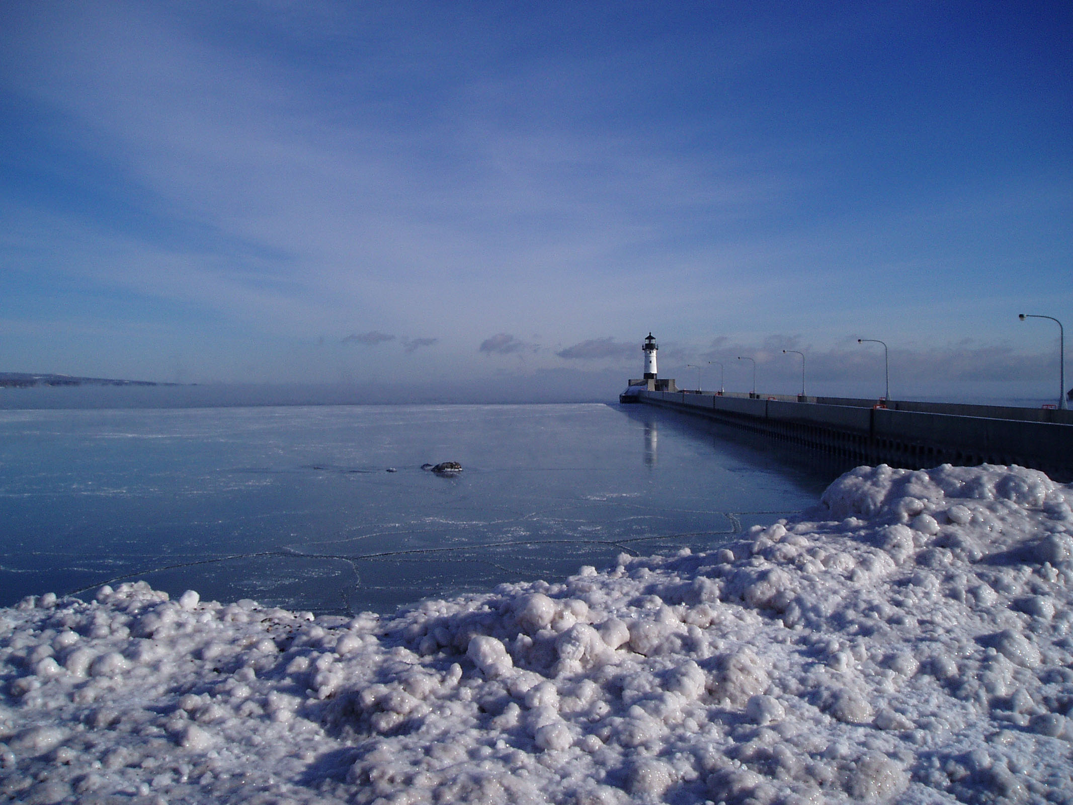 Canal Park in Duluth on a most bitterly cold January morning. (Duluth, Minnesota, Wisconsin, USA)